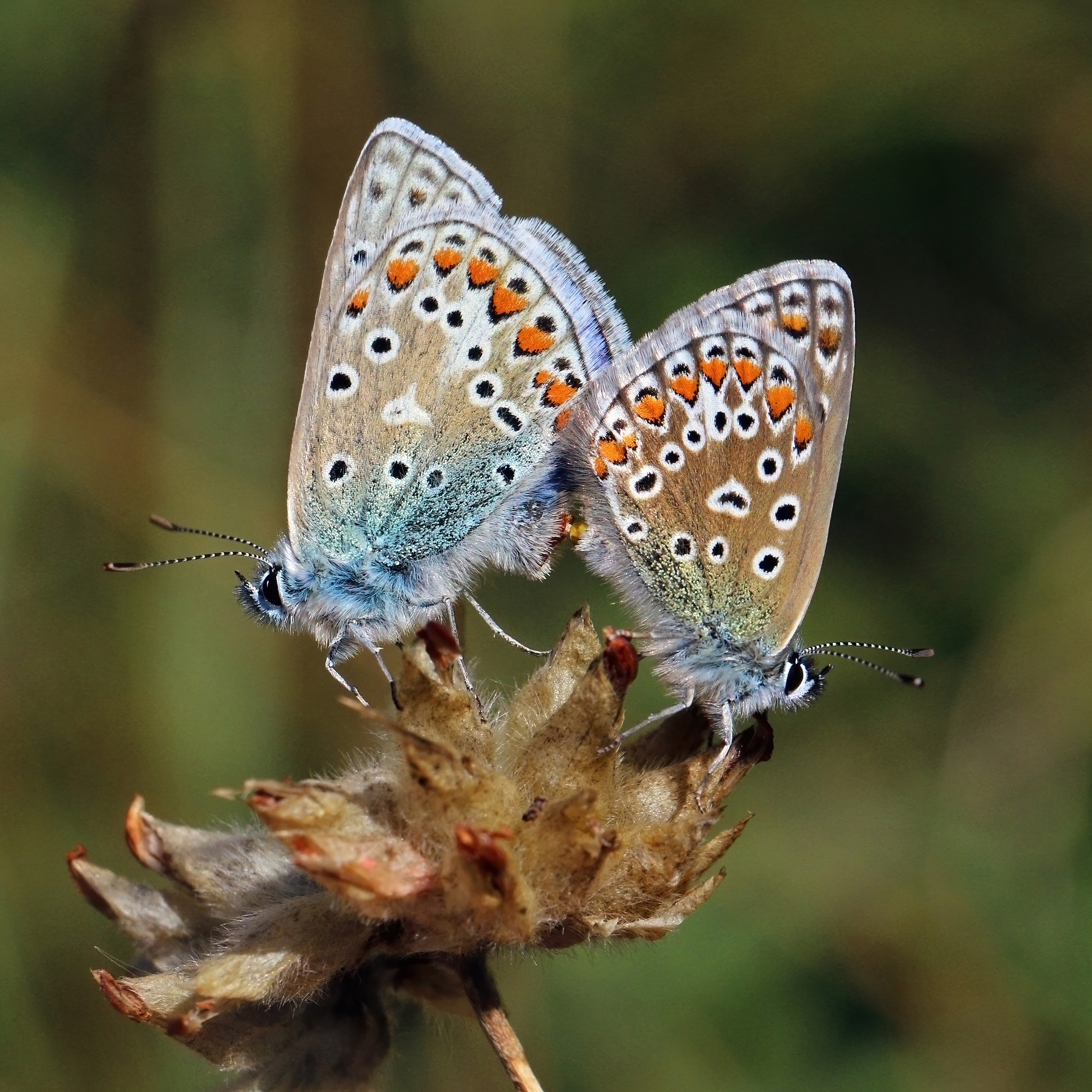 Common blue butterflies (Polyommatus icarus) mating, male (l) and female (r), Yoesden Bank, Buckinghamshire